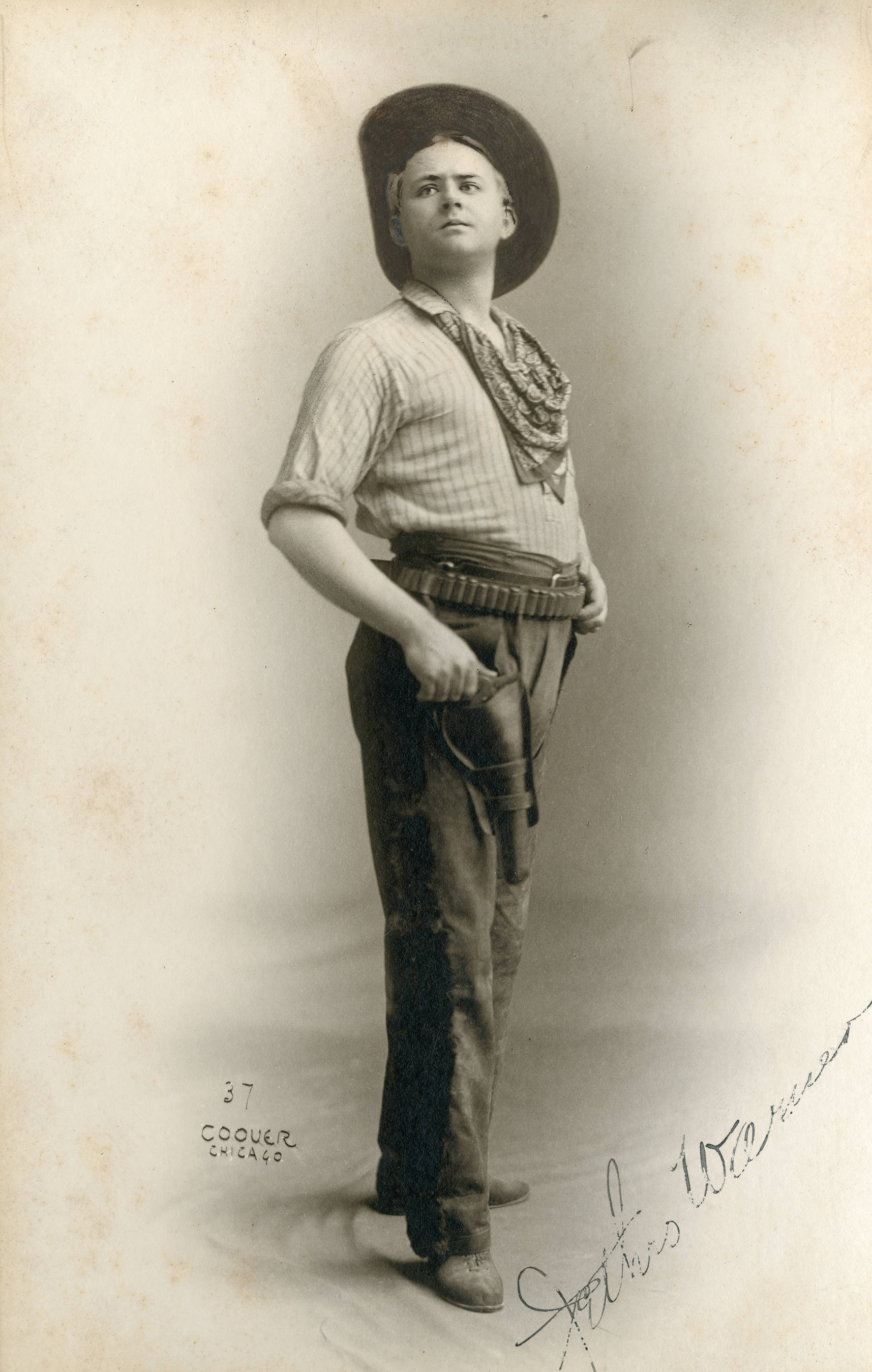 Jethro Warner in a 1905 signed publicity photo.